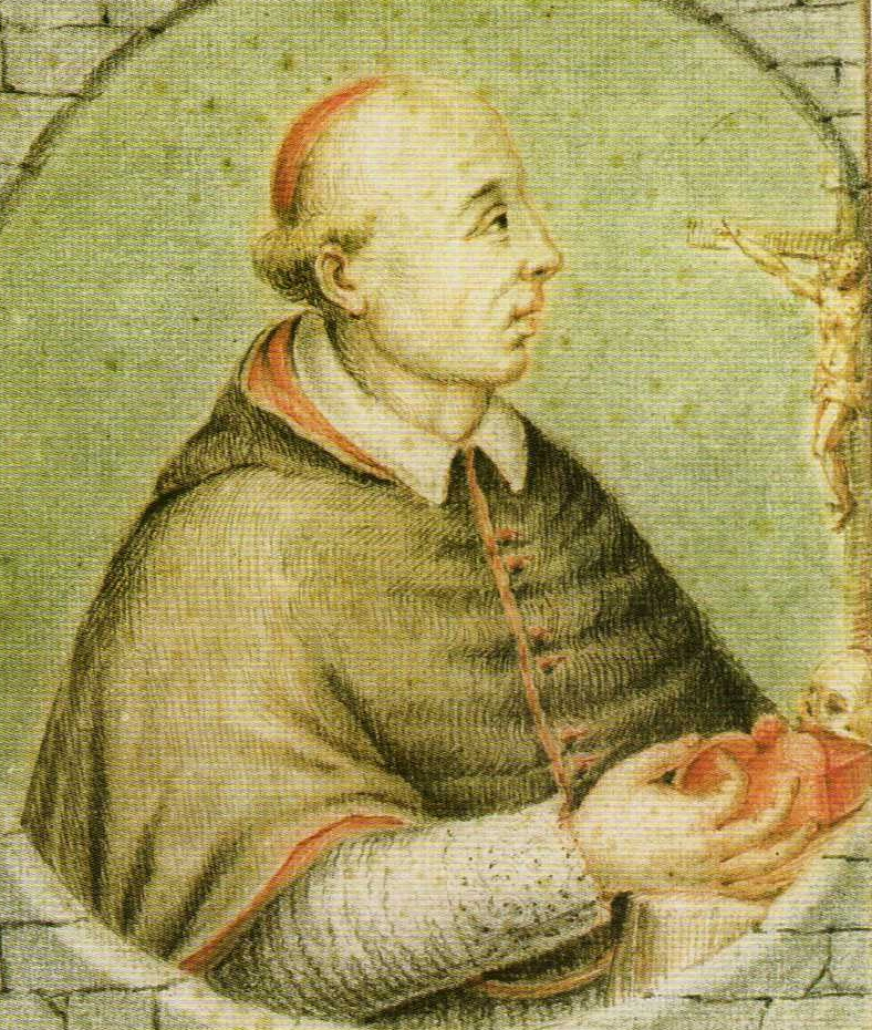 Christopher Numar of Forli OFM, Illustration of the codex of the XVII century (from italian Wikipedia)